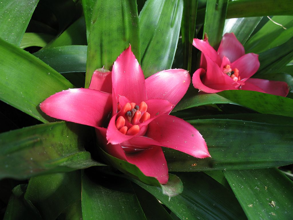 Nidularium rutilans in cultivation at the Botanical Garden of Heidelberg, Germany.